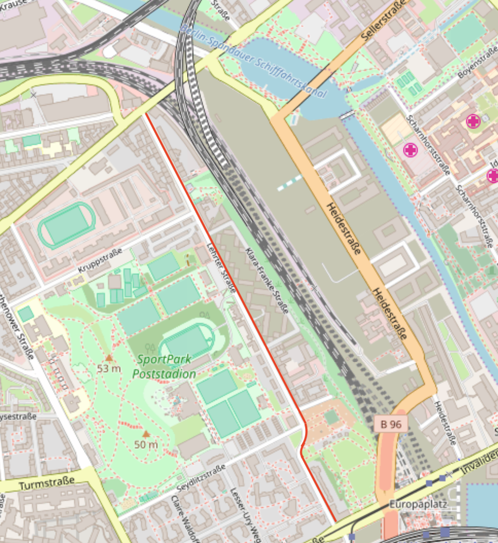 Describes the course of Lehrter Strasse, Moabit, Berlin Mitte